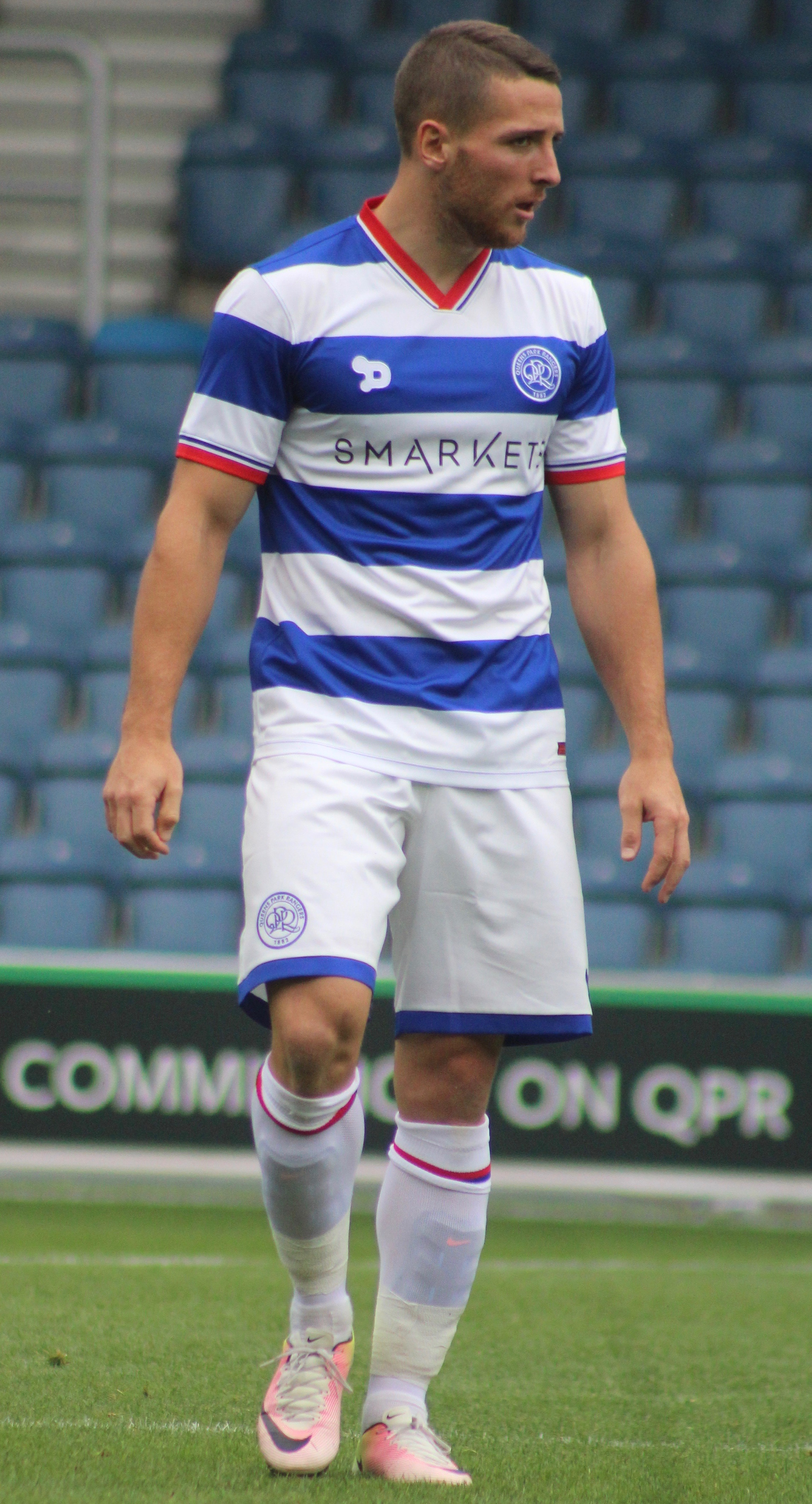 Washington in action for Queens Park Rangers during pre-season, 2016